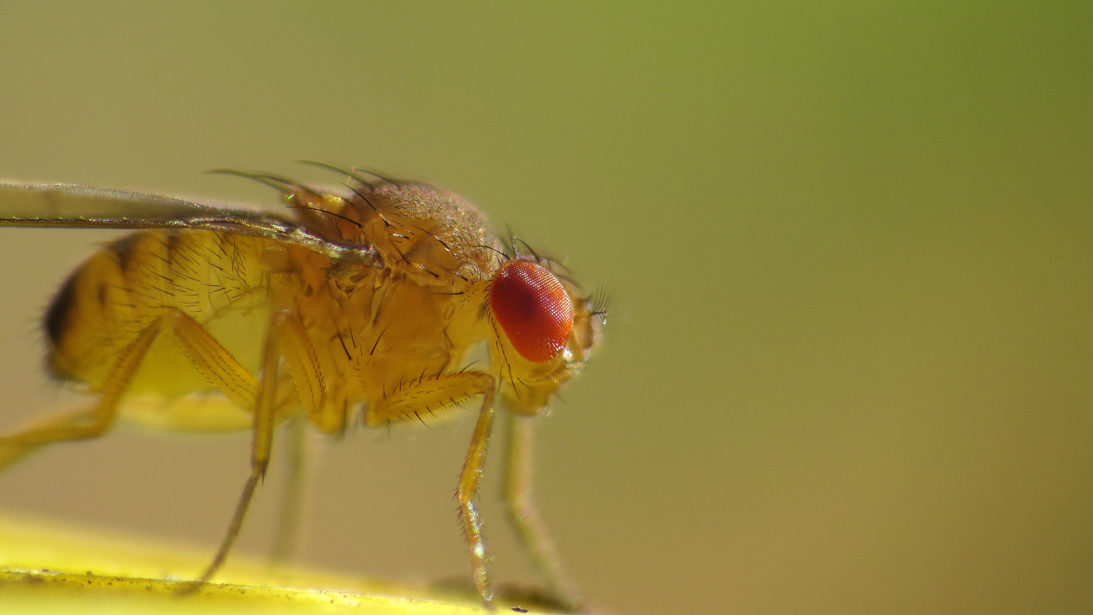 Vinegar fly, male Drosophila immigrans, family Drosophilidae, loitering on compost. Como, NSW, Australia, July 2014.